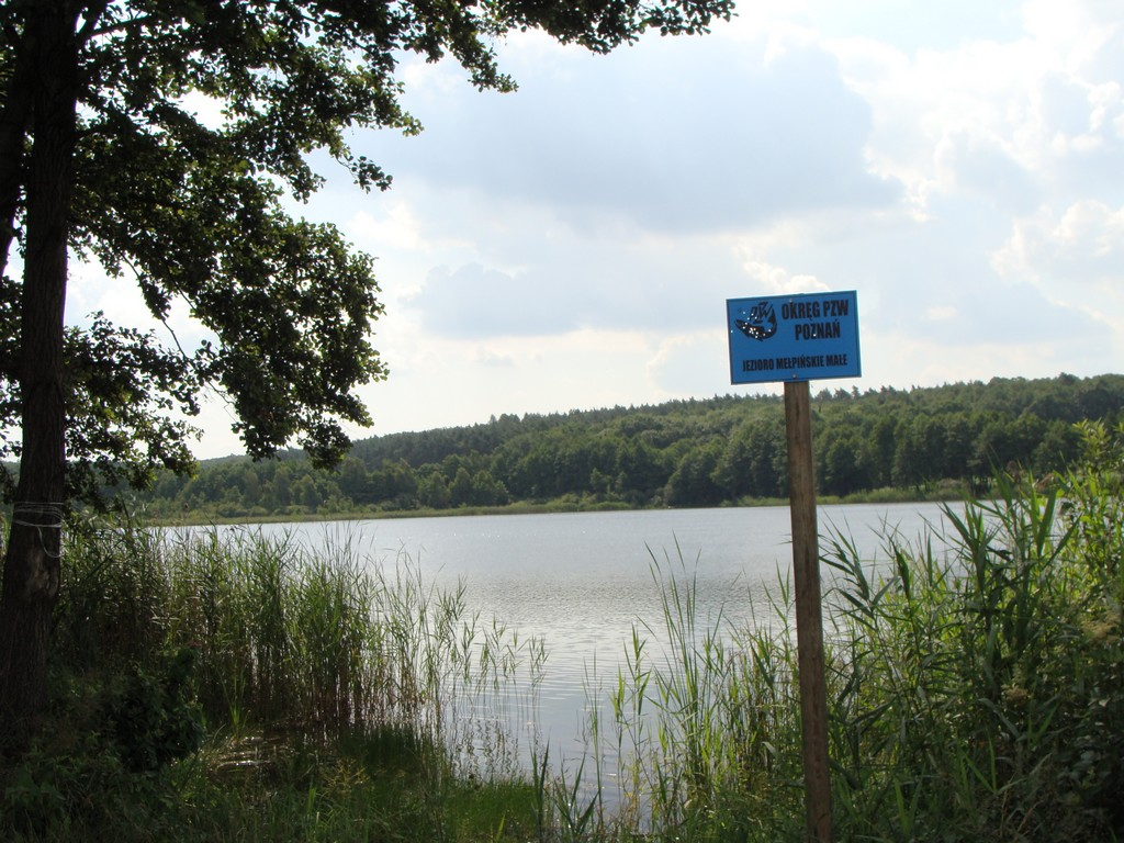 Mełpin, Mełpińskie Małe Lake.